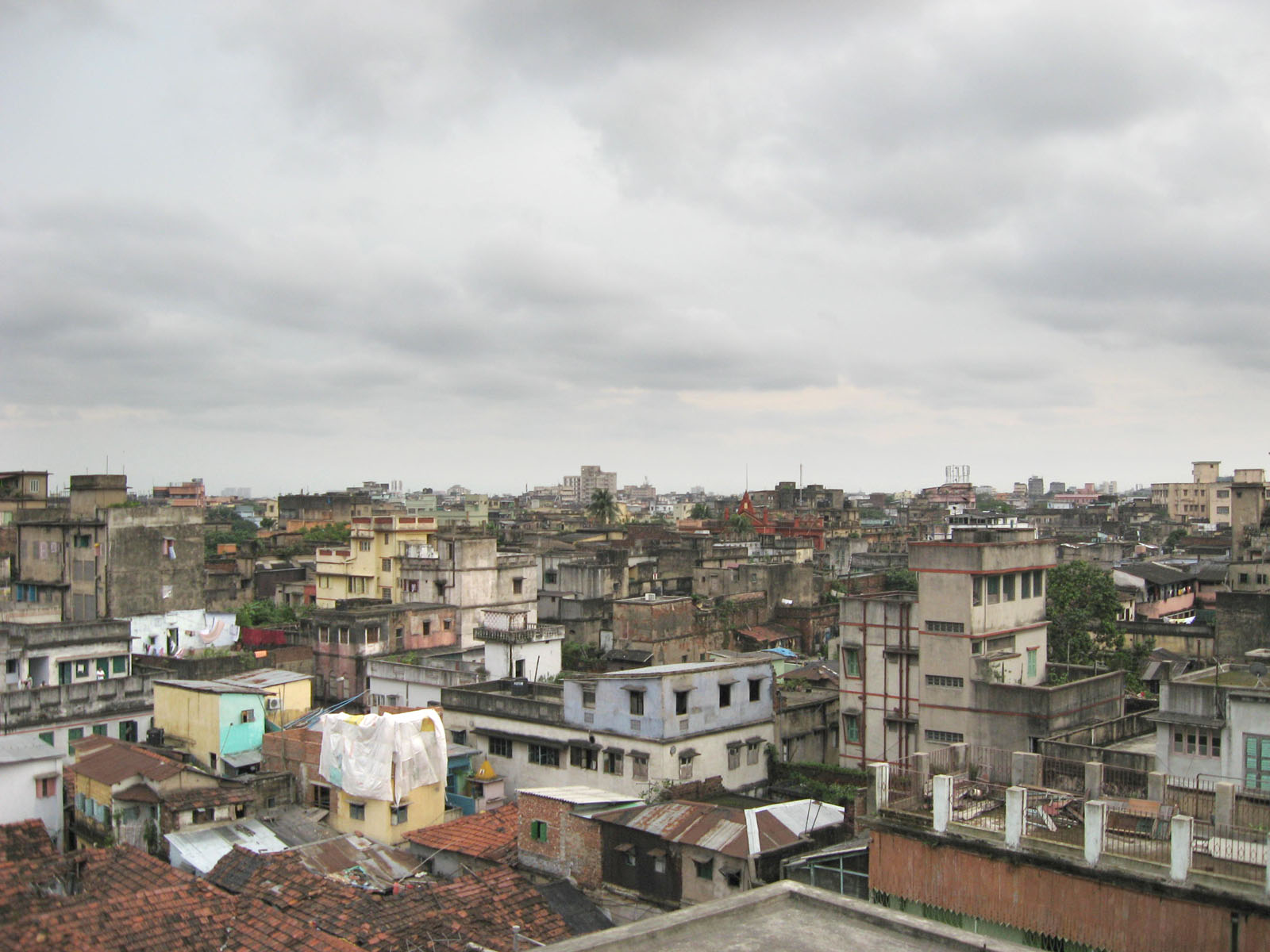 This is a cityscape taken from rooftop of a five storied building at Shovabazar area in north Kolkata (Calcutta).